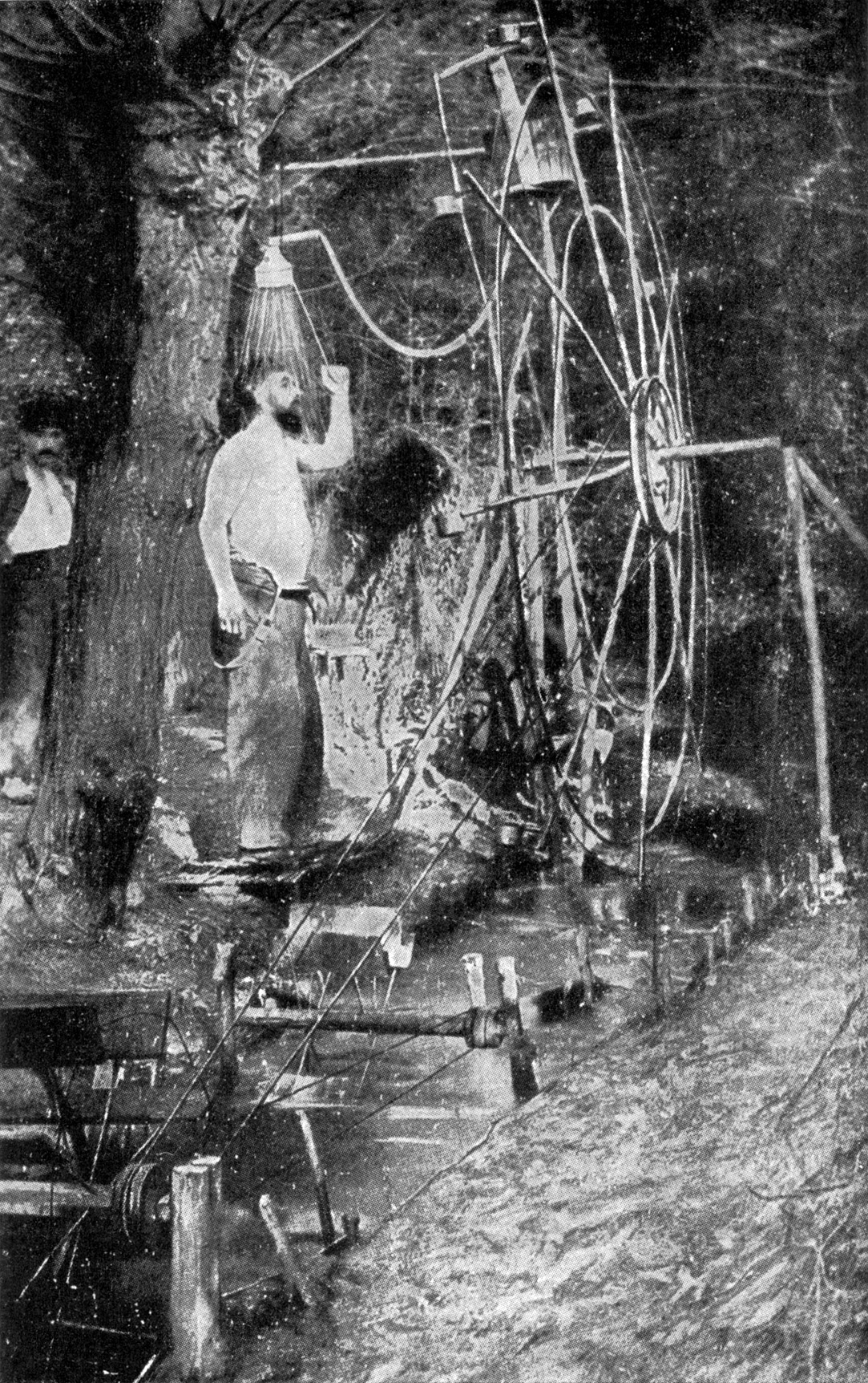 THE SHOWER BATH. Judging by this contraption, the French soldier has developed a modicum of Yankee ingenuity. A water-wheel motor operates a hydraulic lift, which supplies a bucket reservoir with the "makings" of a sprinkle. The apparatus works, but it looks as if it might have been modeled after a comic cartoonist's distorted dream.